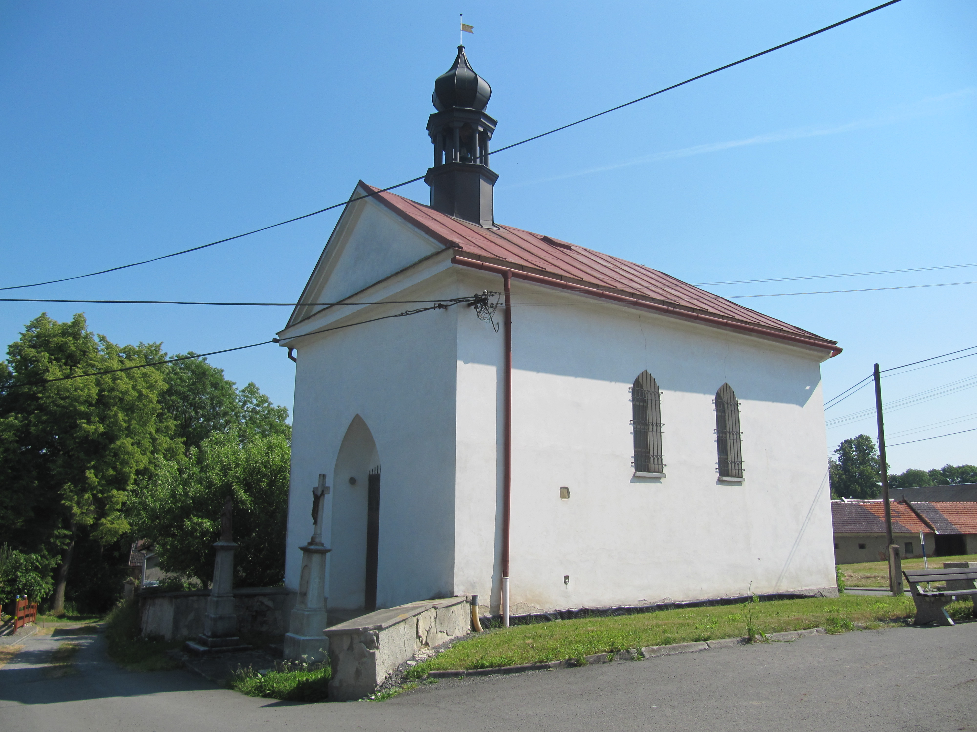 Březová, Opava District, Czech Republic, part Gručovice.